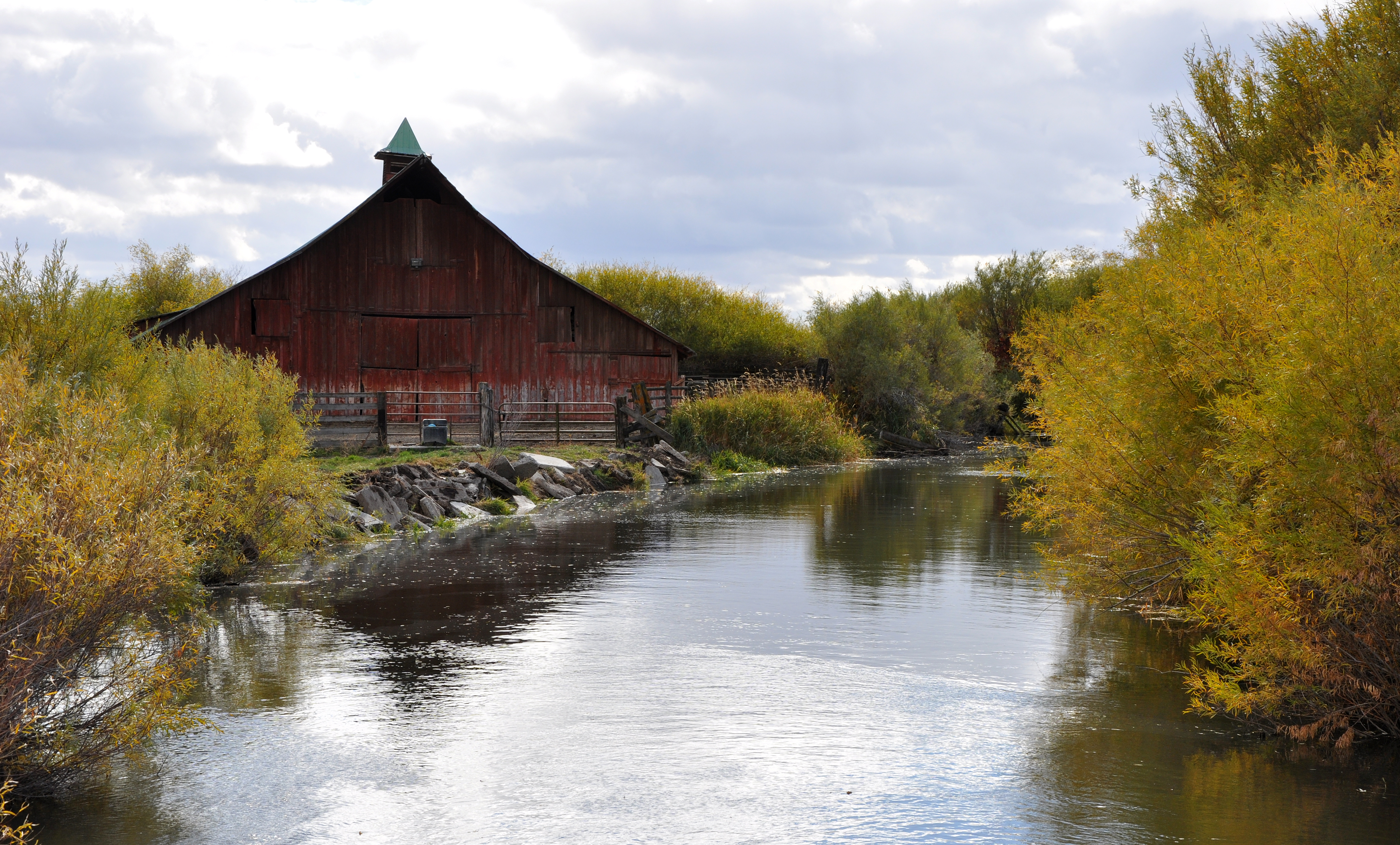 Silvies River at Burns in the U.S. state of Oregon. View is from the Oregon Route 78 bridge over the river.